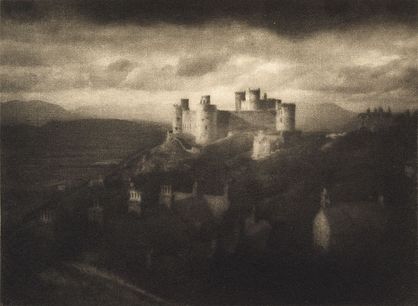 Camera Work: Harlech Castle